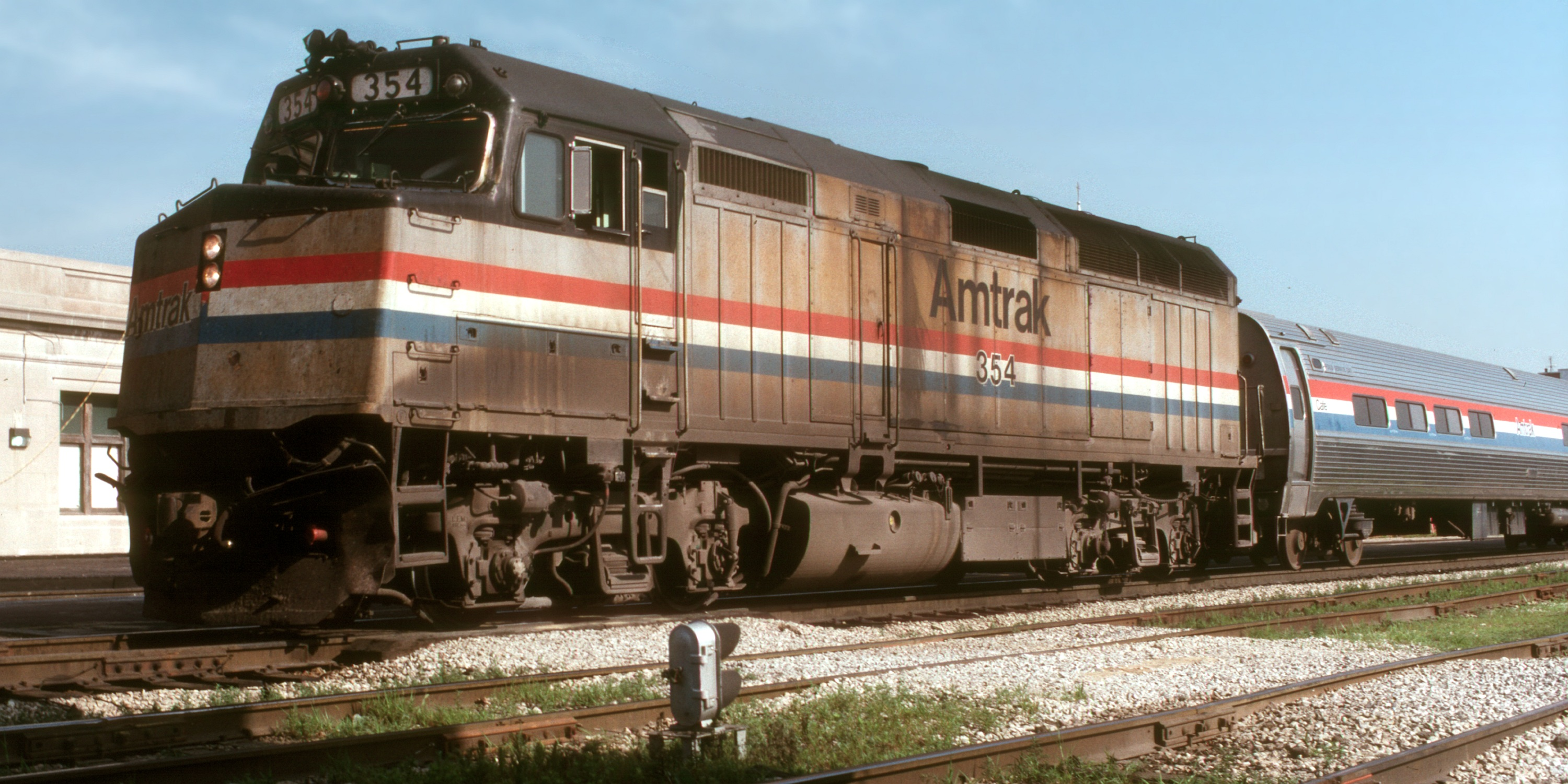 The southbound Loop at Joliet in August 1989